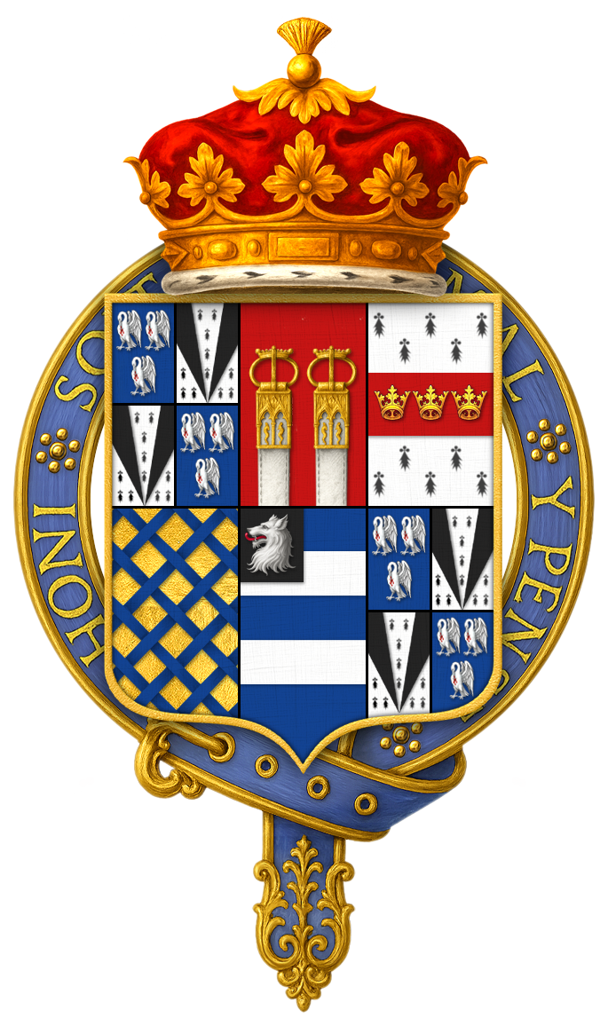 Coat of arms of Thomas Pelham-Holles, 1st Duke of Newcastle upon Tyne, KG, PC, FRS